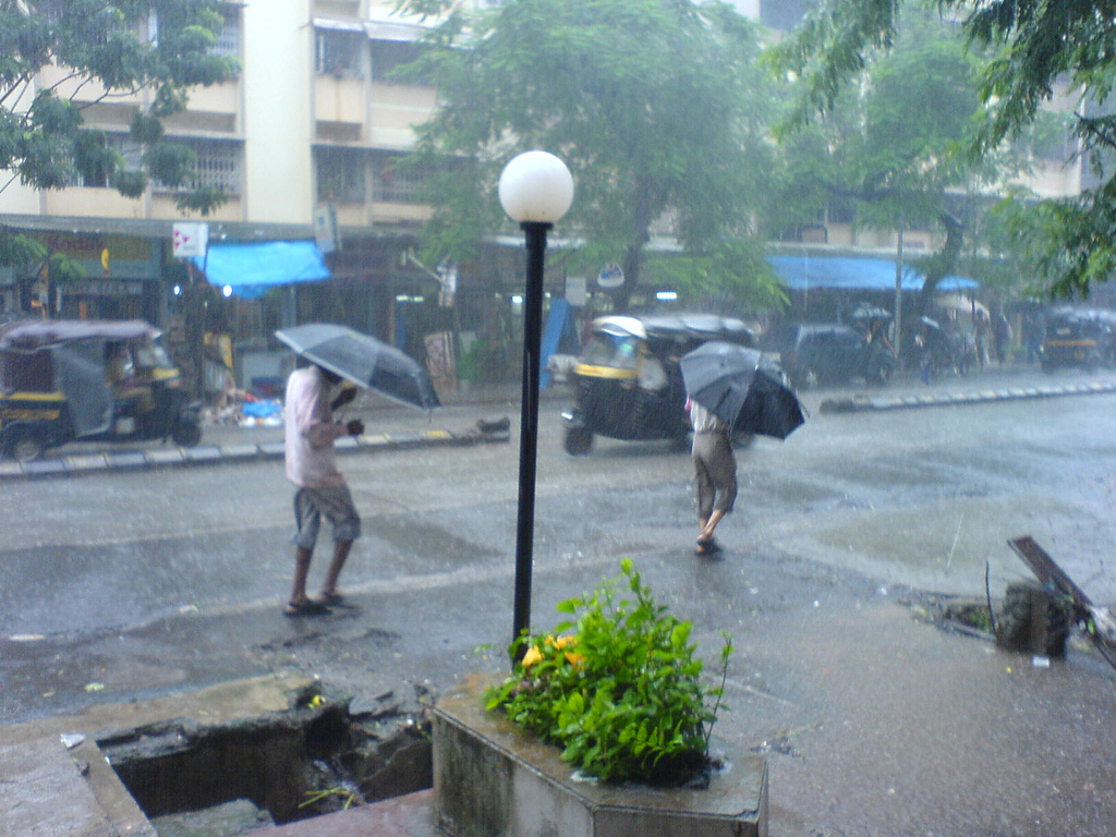 Rains have come down pretty heavily this monsoon